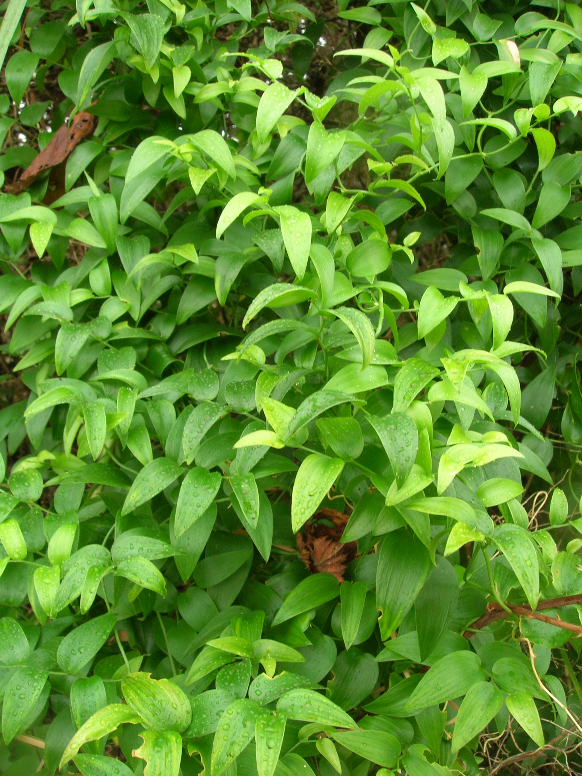 Asparagus asparagoides (leaves). Location: Maui, Haleakala Ranch